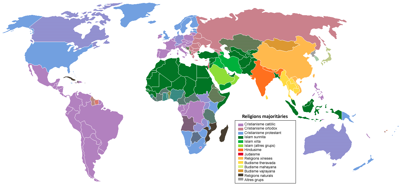 Religions of the world